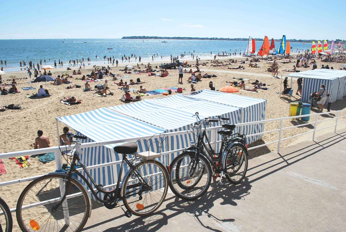 La Baule Beach (summer 2010)